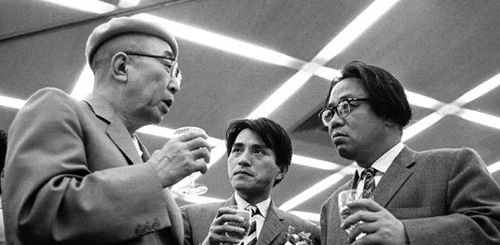 At the party to celebrate that Tsutomu Minakami won the Naoki Prize. Edogawa Rampo (left), Seichō Matsumoto (right), and Tsutomu Minakami (center).